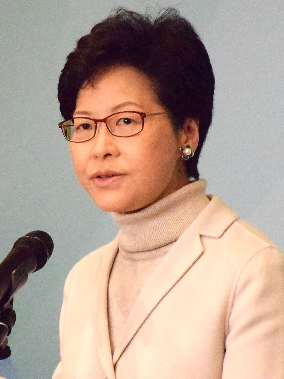 Carrie Lam, Former Chief Secretary for Administration